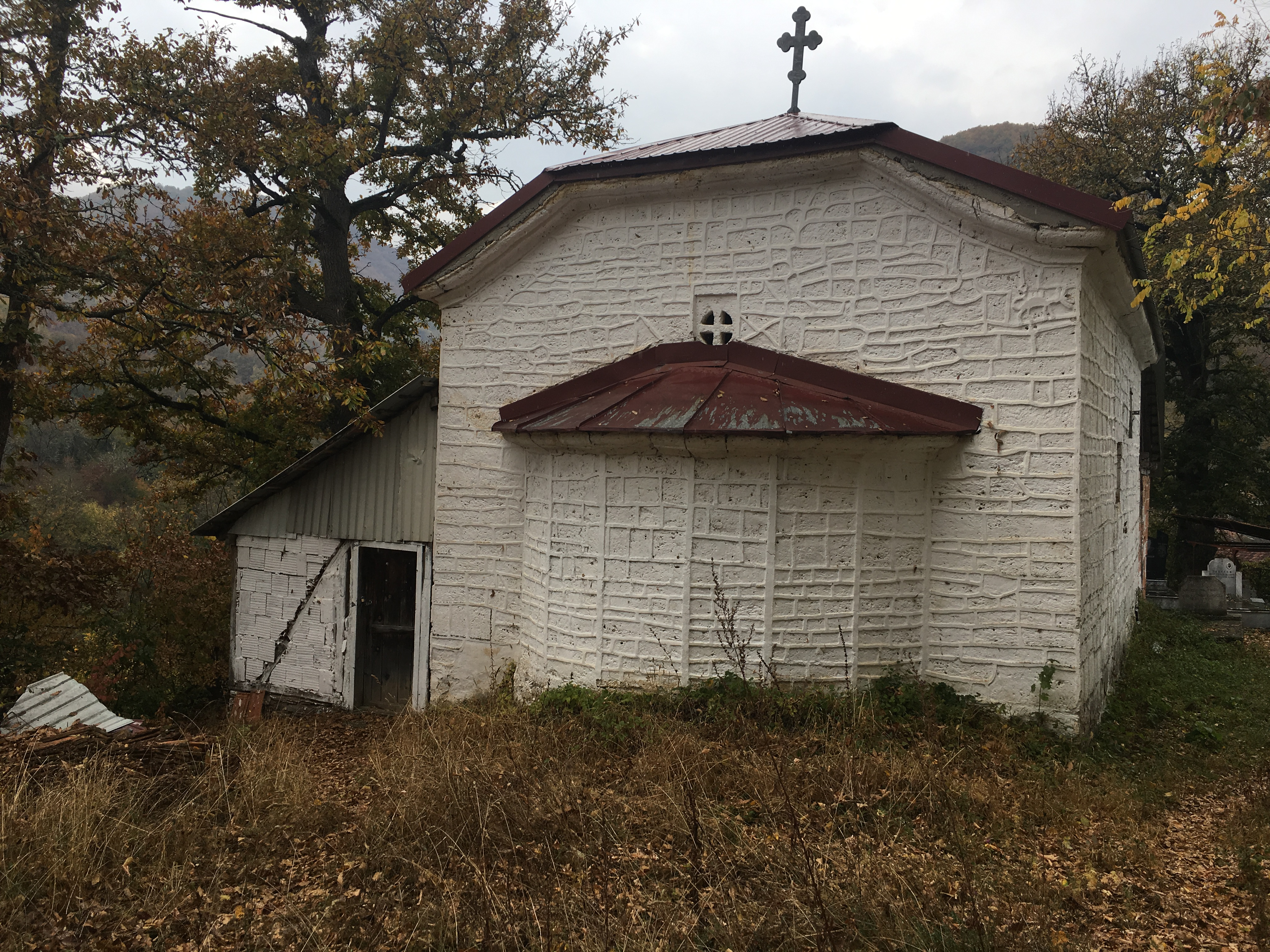 Wikiexpedition to Kopačka